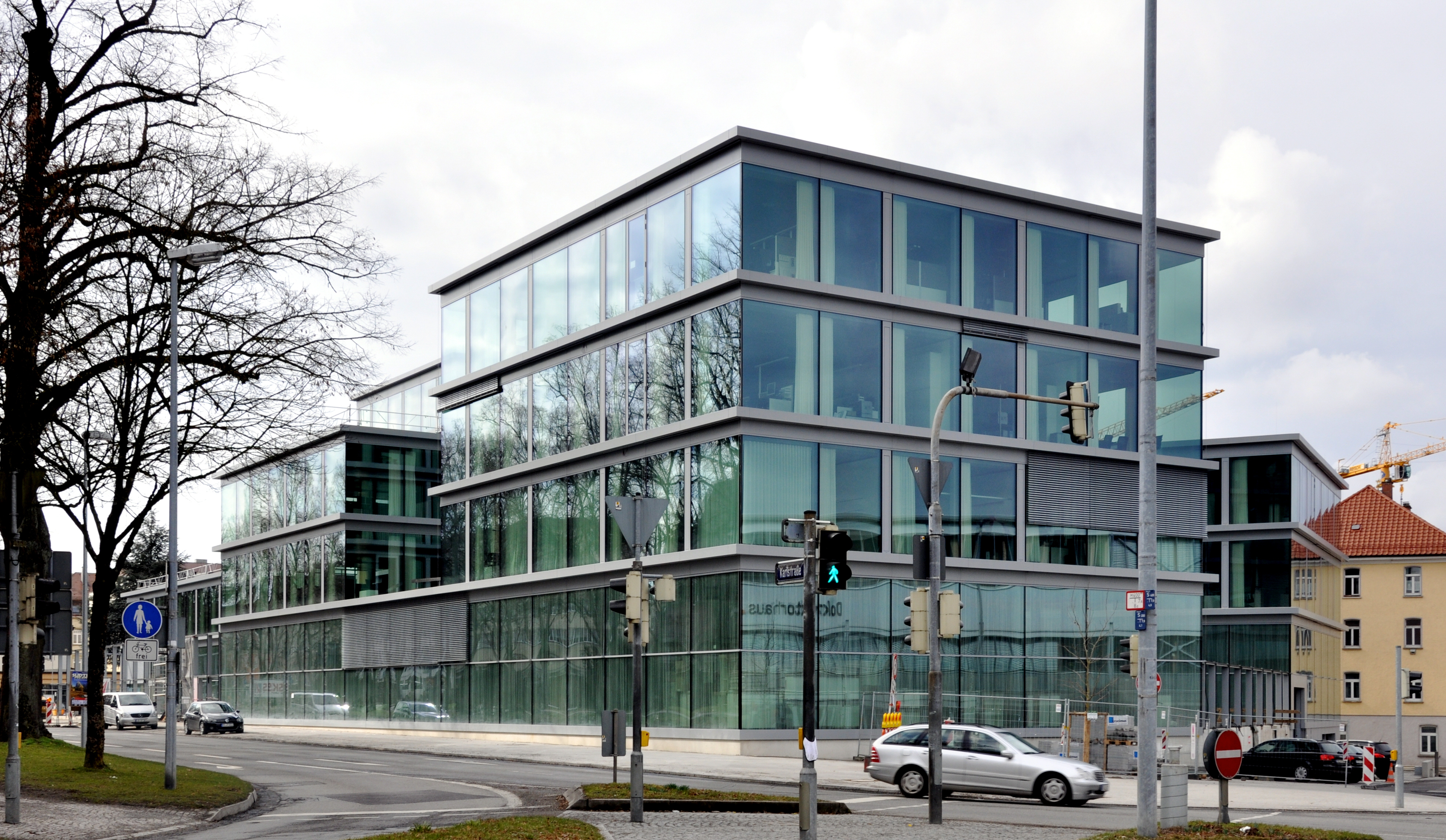 Head office of the Schwäbische Zeitung